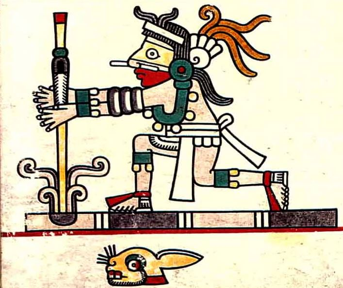 Mixtec using the Amamalócotl over a flat surface